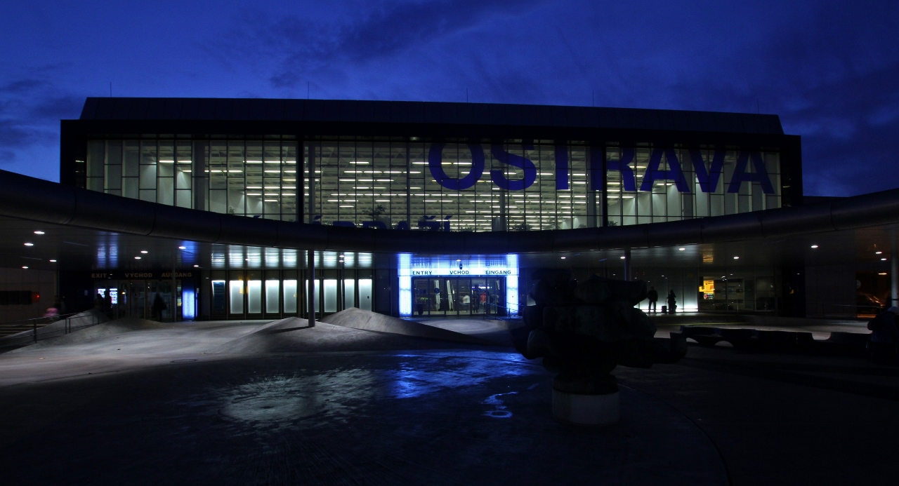 Main building of Ostrava hlavní nádraží, seen from the front at night